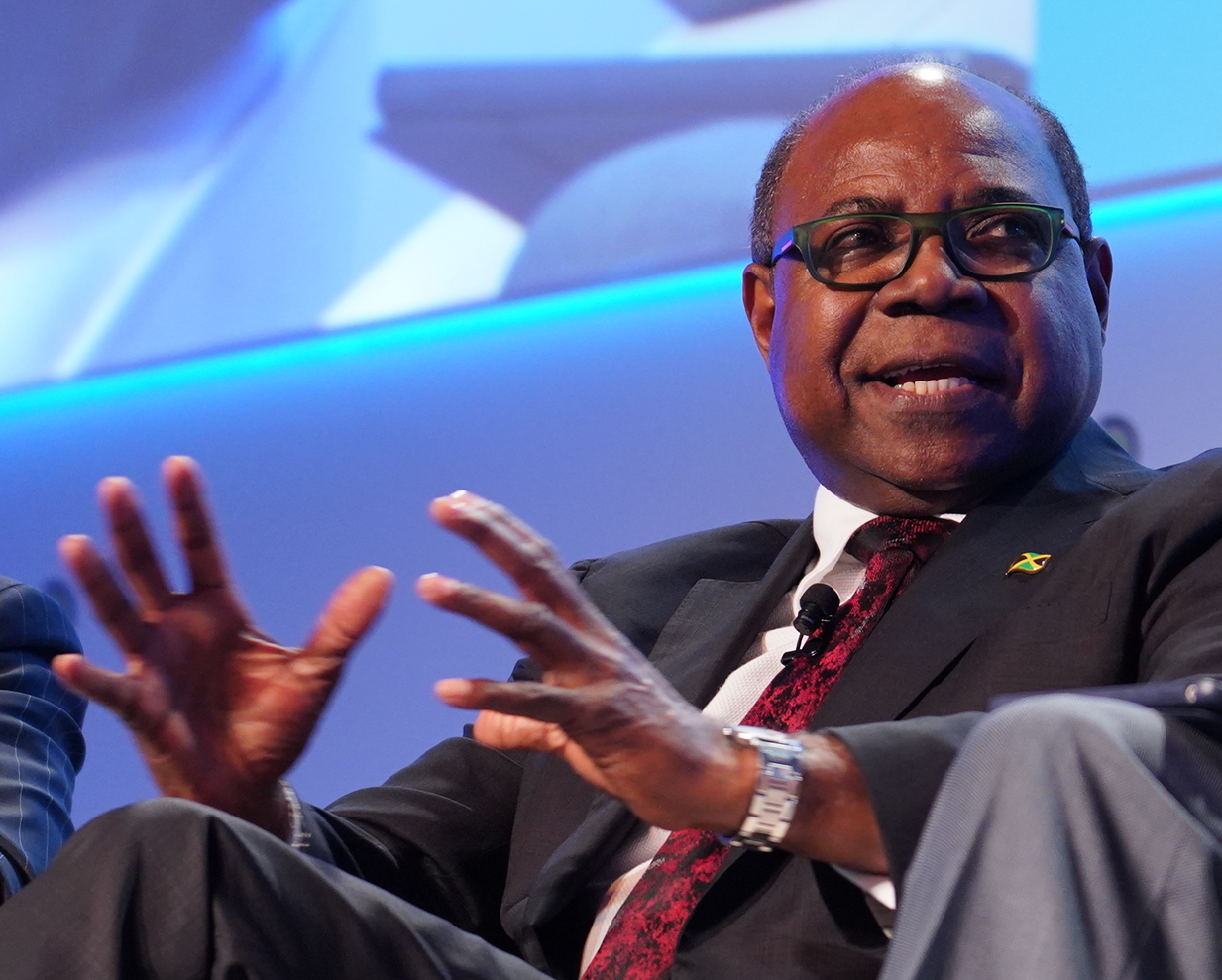 Mark Hoplamazian, President & CEO, Hyatt Hotels H.E. Edmund Bartlett, Minister of Tourism, Jamaica